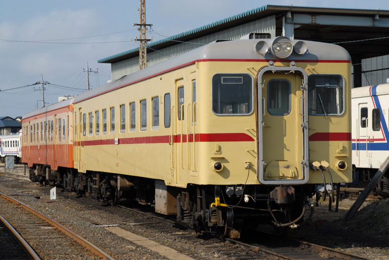 Ibaraki Kotsu kiha 2004